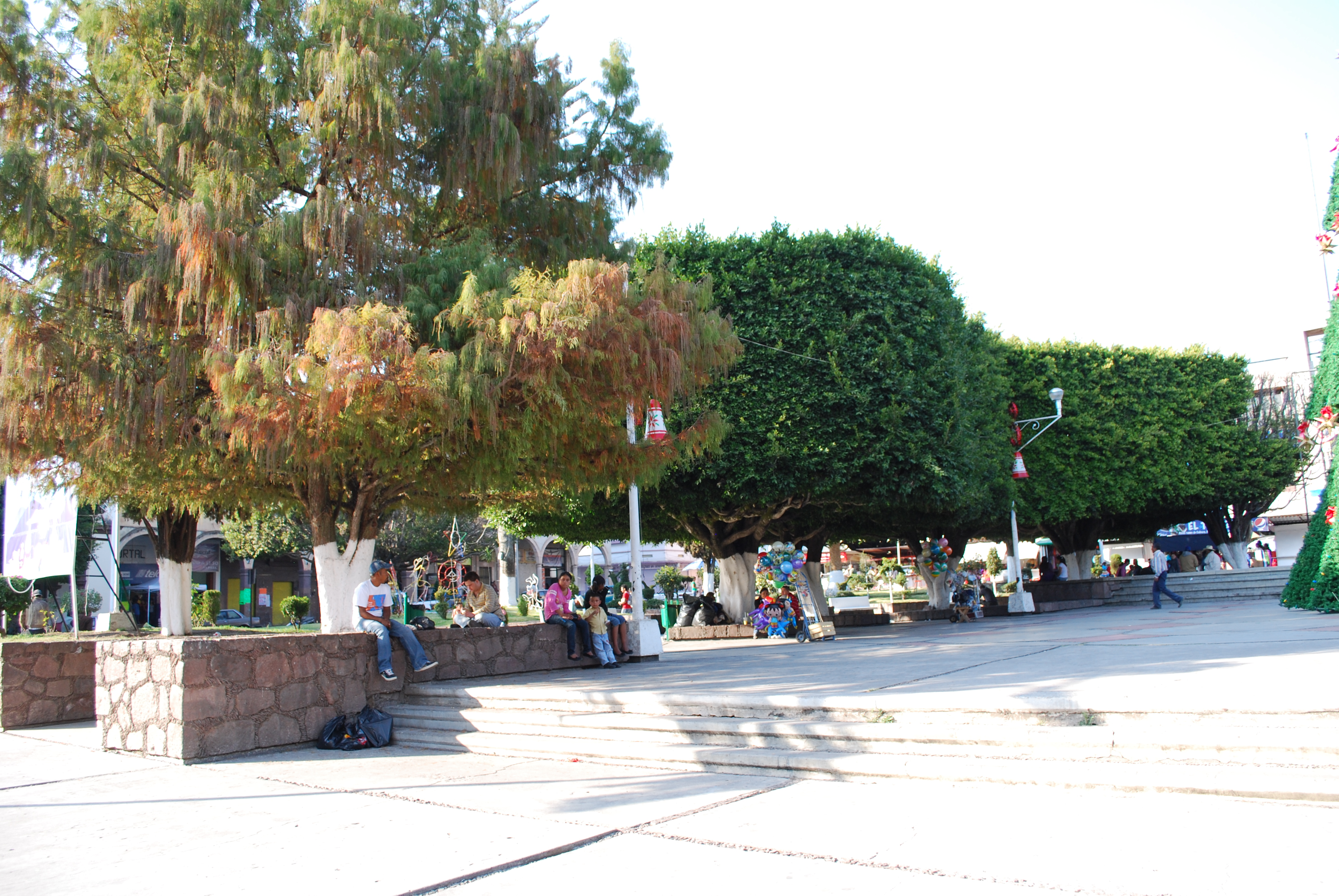 Part of the central plaza in Ciudad Hidalgo, Michoacan